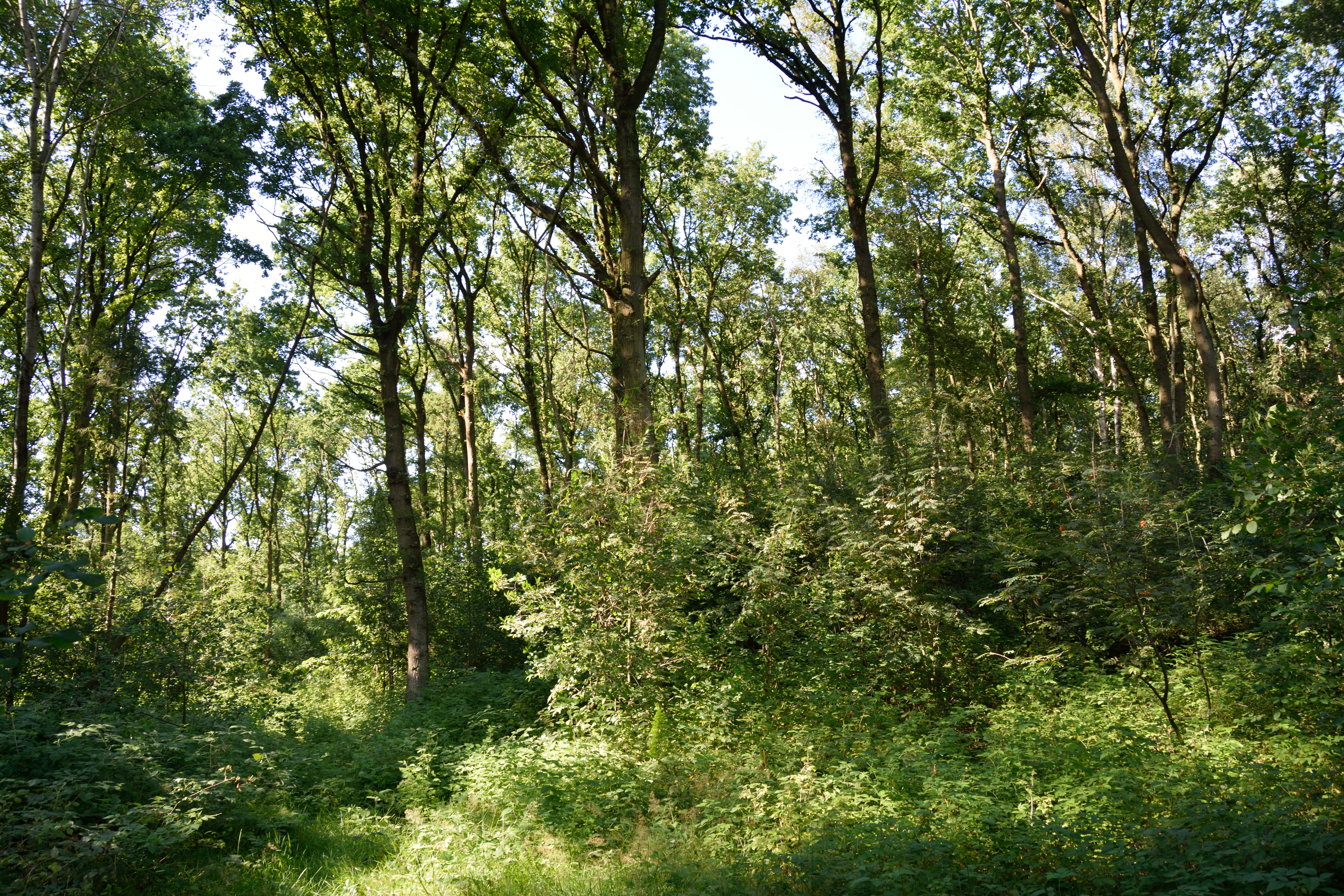 Impressions from the conservation area "Horstmühle" in the district Steinburg, Schleswig-Holstein.